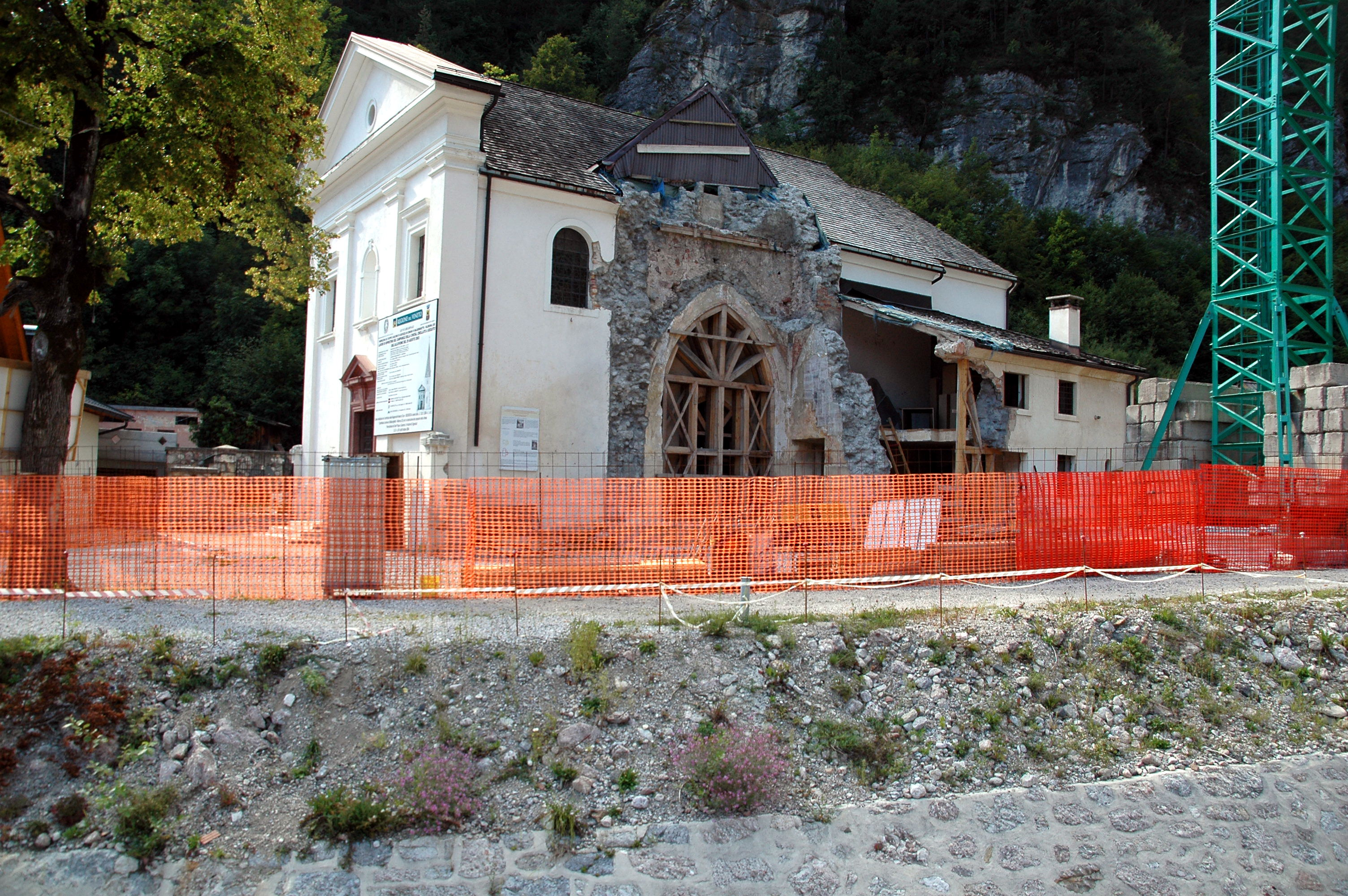 Parish church without steeple at Ugovizza, Val Canale, Friuli-Venezia Giulia, Italy